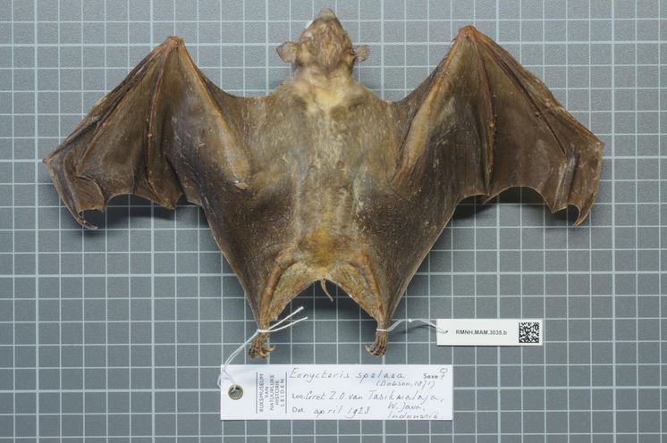 cave nectar bat